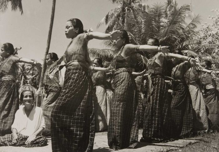 Dance